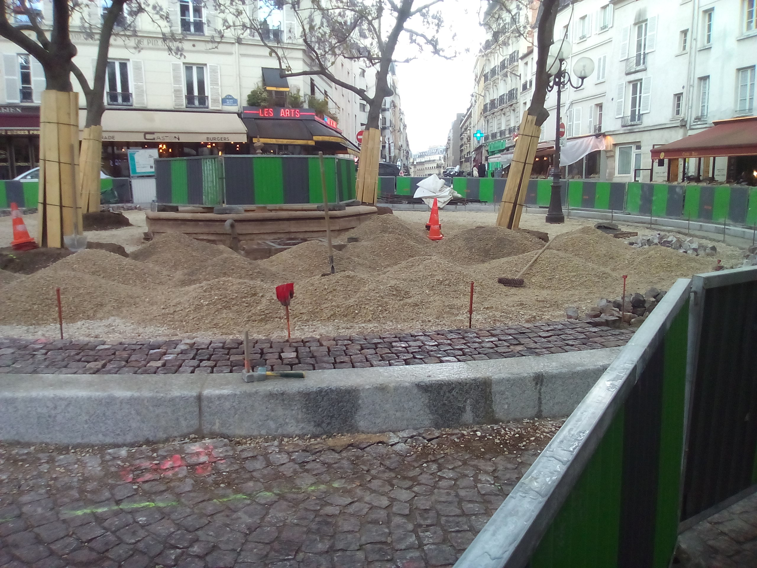 renovation of the Contrescarpe